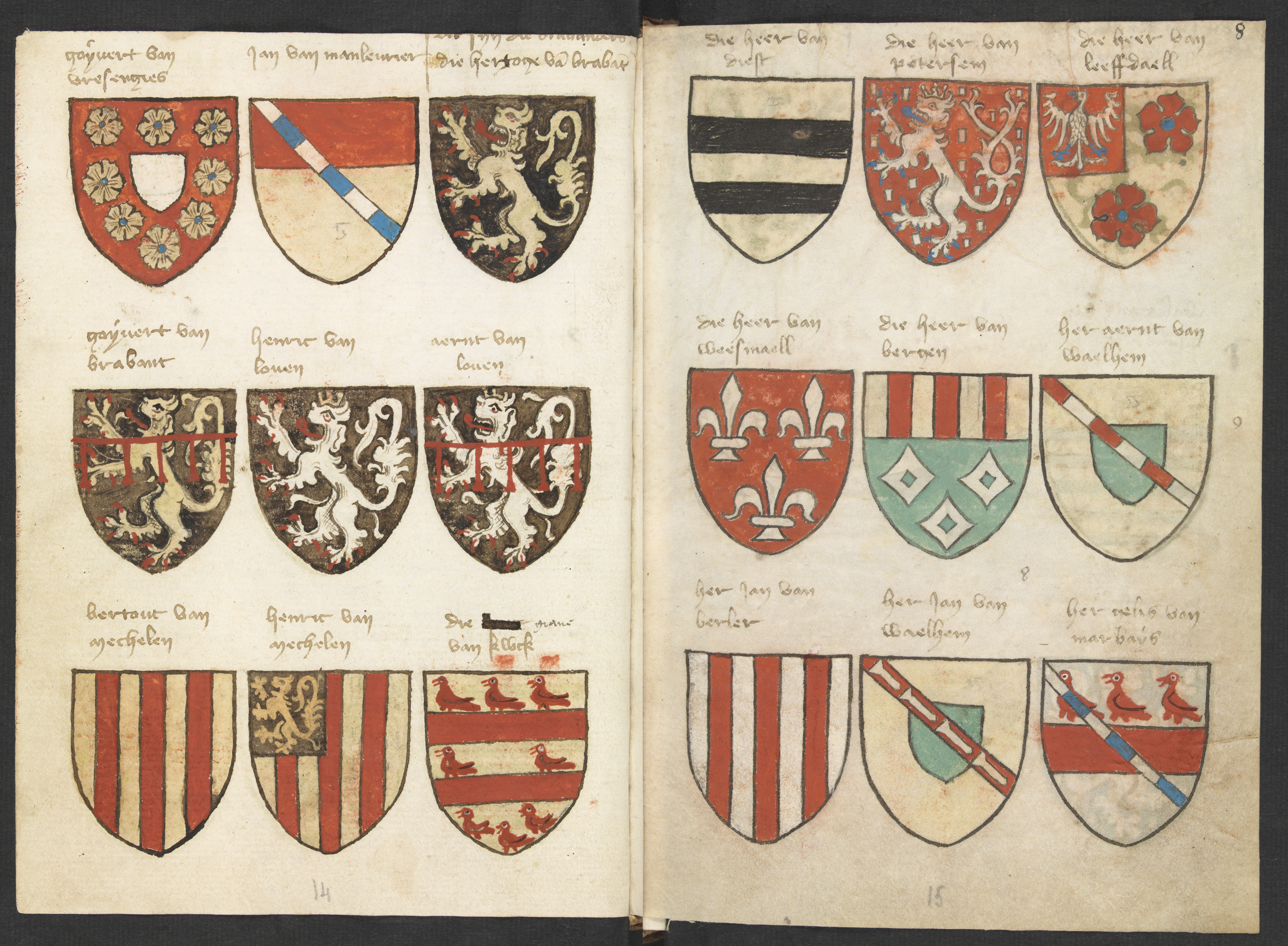 Lefthand side folio 007v; righthand side folio 008r from the Beyeren armorial / Wapenboek Beyeren